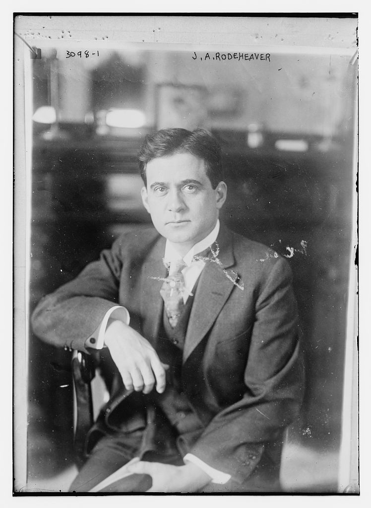 J. A. Rodeheaver circa 1914 Bain News Service,, publisher. J.A. Rodeheaver [between ca. 1910 and ca. 1915] 1 negative : glass ; 5 x 7 in. or smaller. Notes: Title from unverified data provided by the Bain News Service on the negatives or caption cards. Forms part of: George Grantham Bain Collection (Library of Congress). Format: Glass negatives. Repository: Library of Congress, Prints and Photographs Division, Washington, D.C. 20540 USA, General information about the Bain Collection is available at Persistent URL: Call Number: LC-B2- 3098-1